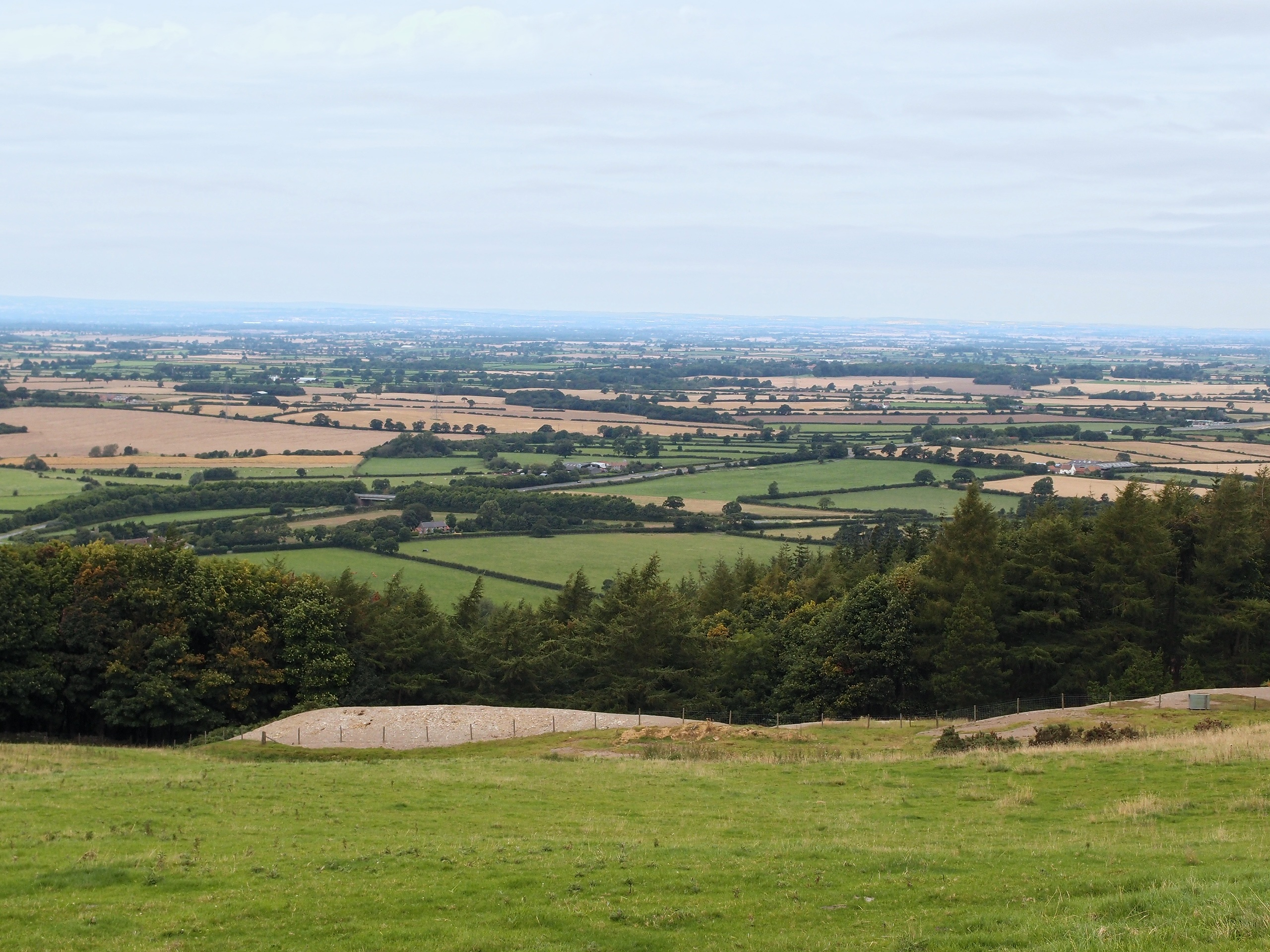 View over the Vale of Mowbray from the east